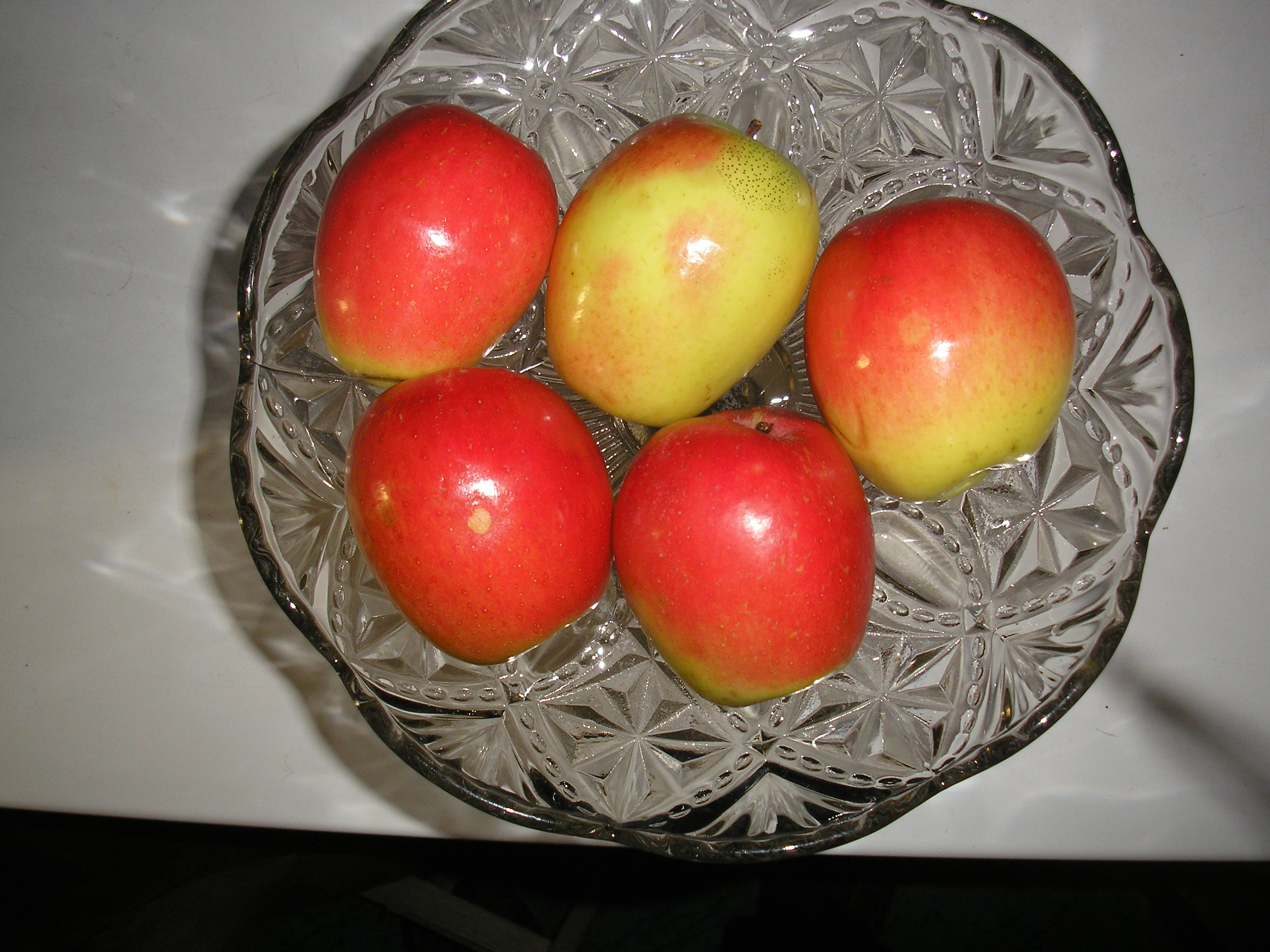 Kandil synap apples. Crimea.